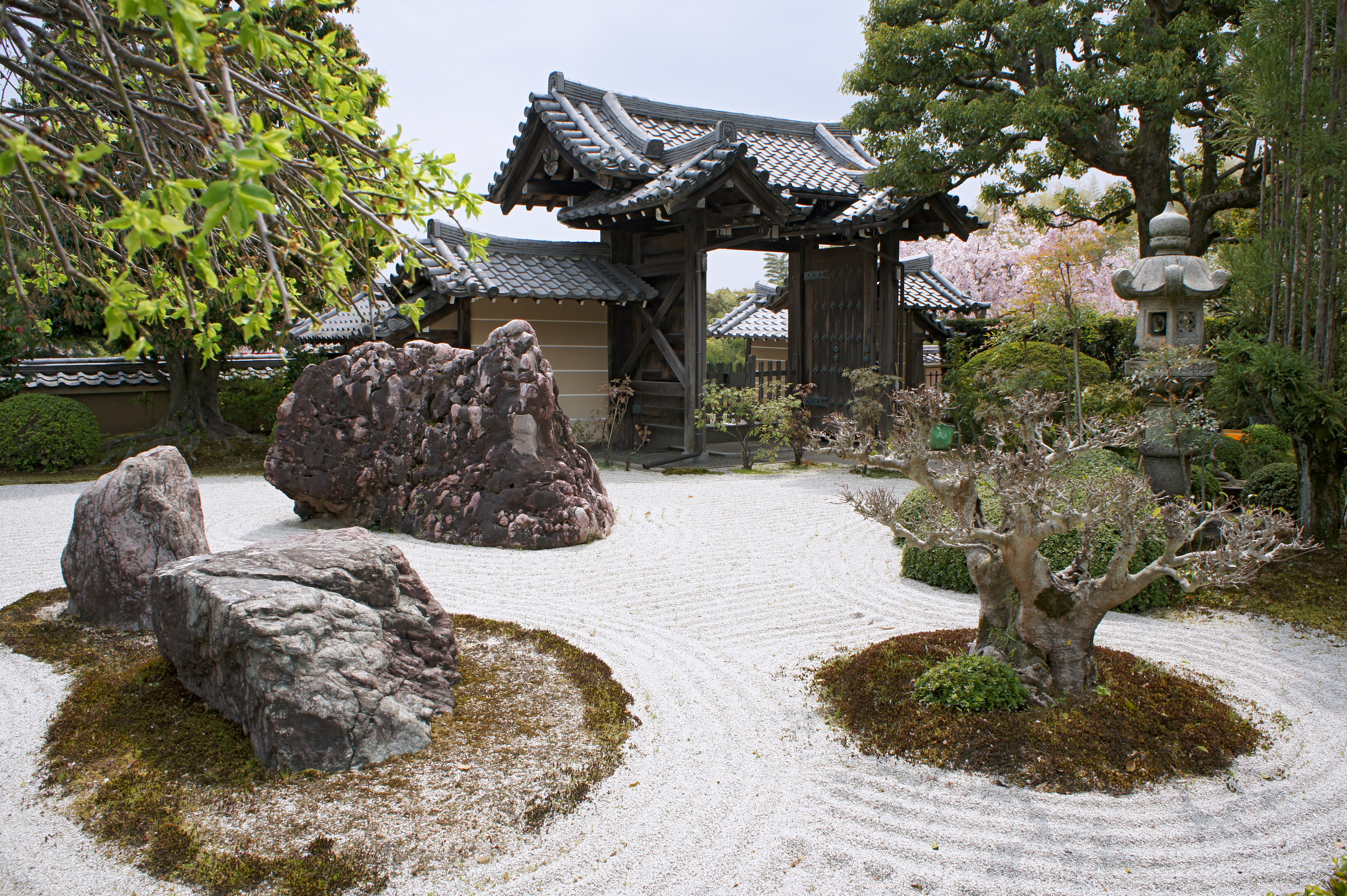 Shobo-ji in Nishikyo-ku, Kyoto, Kyoto prefecture, Japan